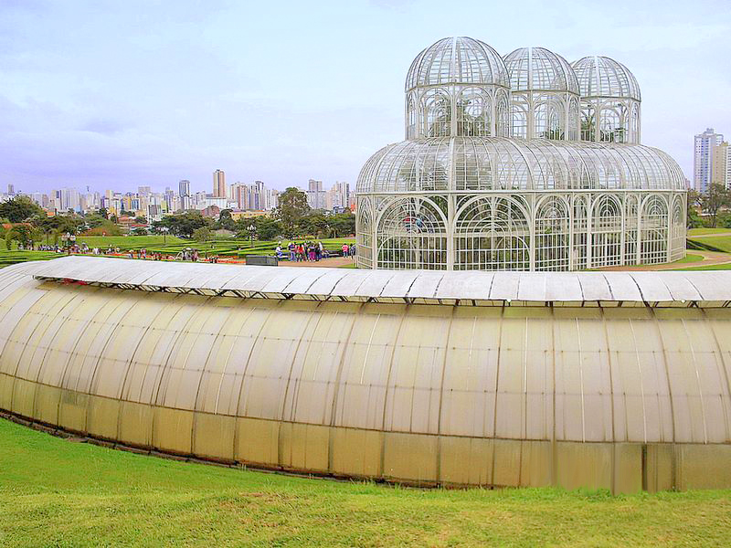 Botanical Garden of Curitiba, Paraná, Brazil